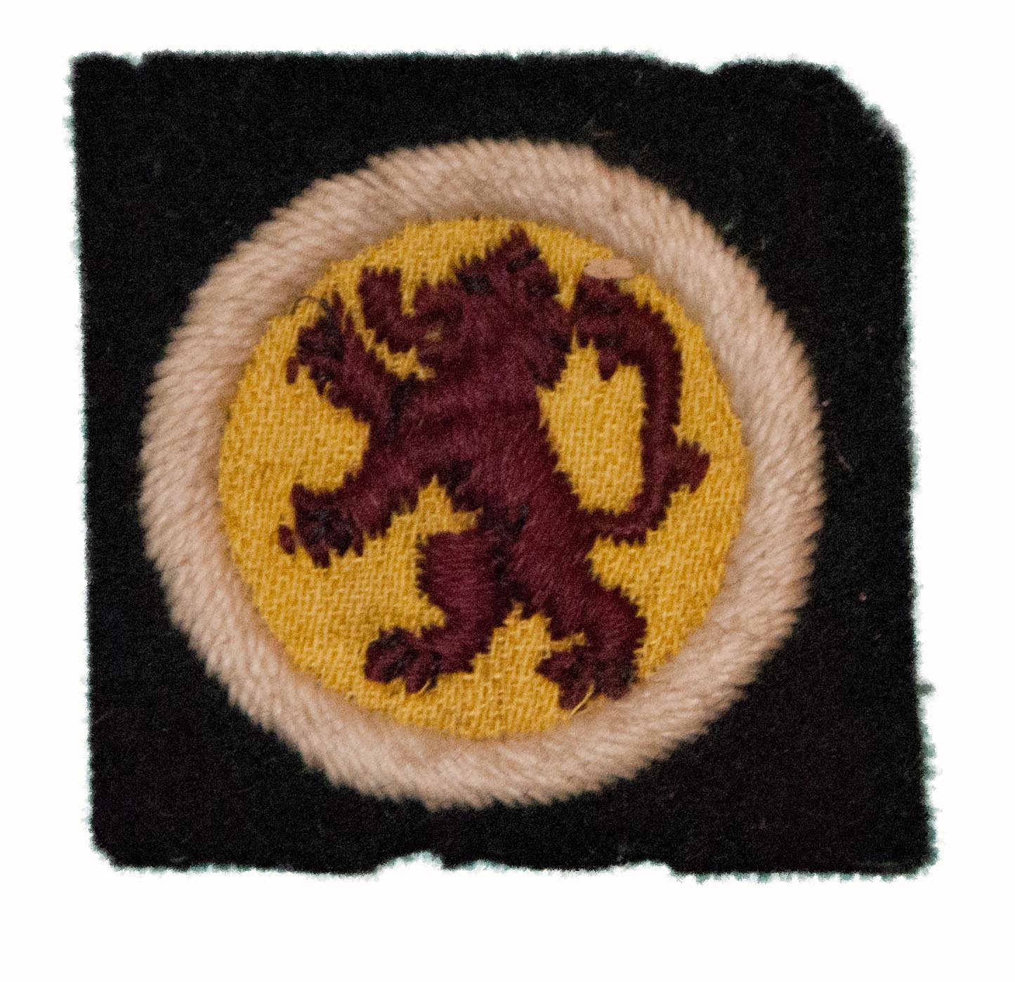 Formation sign for the 15th (Scottish) Infantry Division a second line territorial formation (52nd (Lowland)).